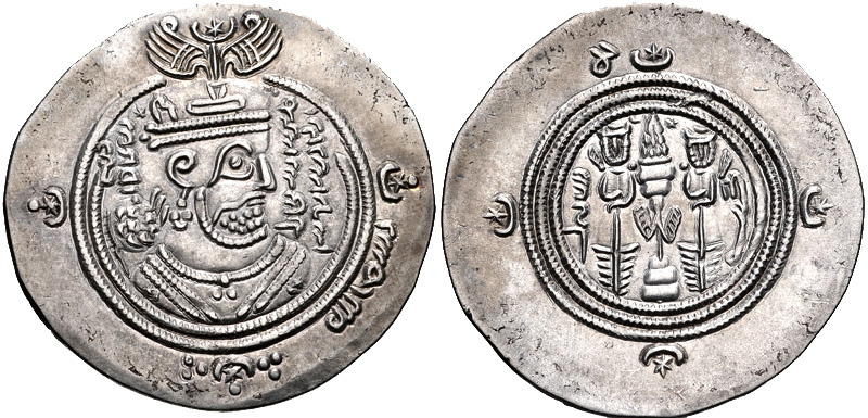 ISLAMIC, Umayyad Caliphate. Mu'awiya ibn Abi Sufyan. AH 41-60 / AD 661-680. AR Drachm (30mm, 4.12 g, 3h). Arab-Sasanian type. Fasa mint in Darabjird (Fars). Struck AH 54-55 / AD 674-675. Crowned bust right imitating Sasanian king Khosrau II; Pahlavi GDH 'pzwt (may his splendor increase) to left, Pahlavi MYYAWYA AMYR/WYRWYShNYKAN (Mu'awiya, commander of the faithful) to right; all within double ring; pellet-above-star-in-crescents flanking and below (the latter flanked by two groups of three pellets); Pahlavi bism Allah (in the name of God) to lower right / Fire altar with attendants; crescent and star flanking flames, Pahlavi sychl (43 [date]) to left, Pahlavi DAP (mint abbreviation) to right; all within triple ring; star-in-crescents flanking, above, and below; Pahlavi MY monogram to upper left. SICA 1, 269 var. (position of monogram on reverse); Walker, Arab-Sasanian 35 var. (same); Album 14; ICV 4. EF. Rare.